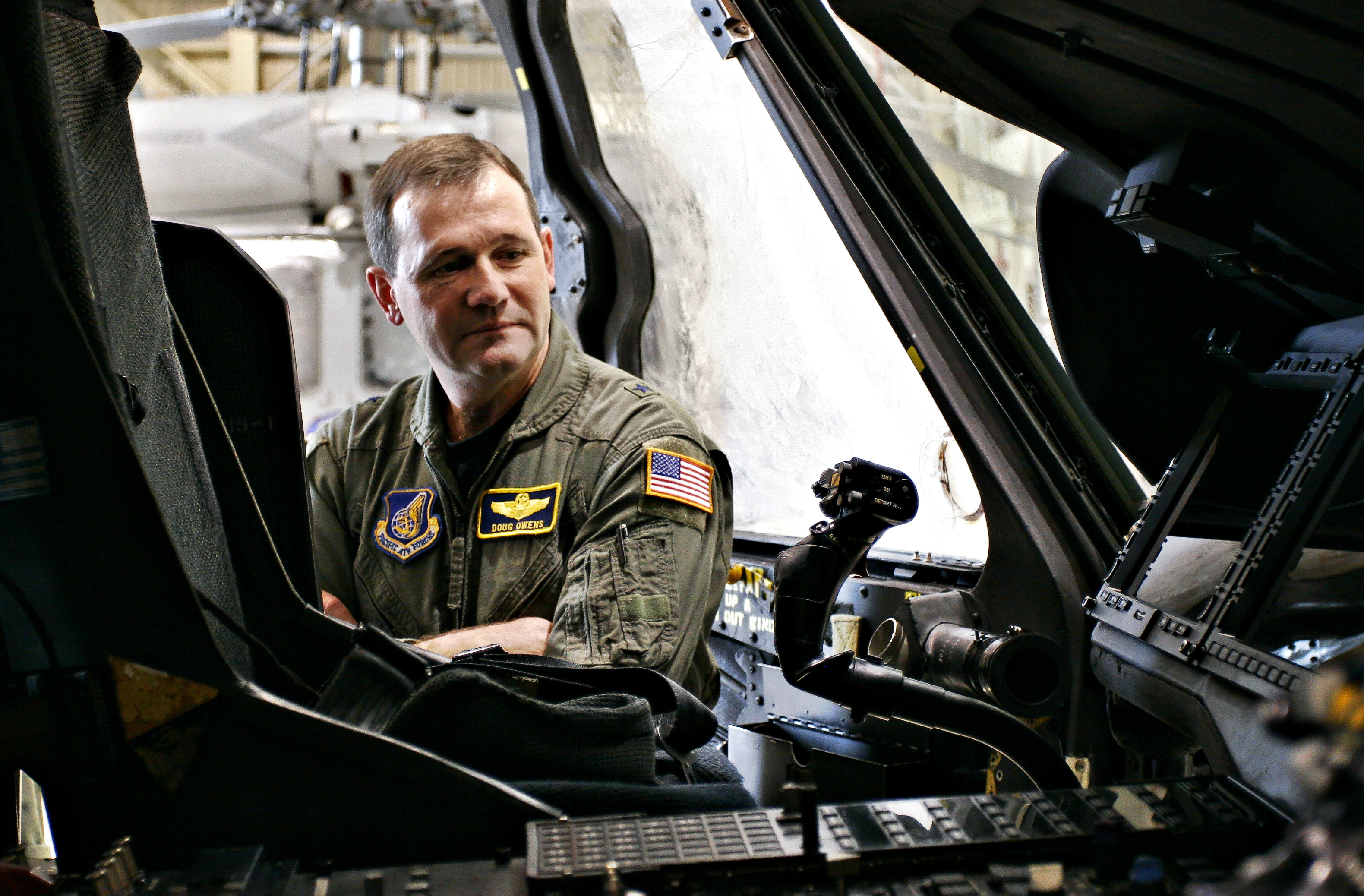 Yigo, Guam (Feb. 13, 2007) - Brigadier General Douglas Owens, Commander, 36th Wing, Andersen Air Force Base, tours the cockpit of an MH-60S Seahawk assigned to the “Island Knights” of Helicopter Sea Combat Squadron Two Five (HSC-25). HSC-25 is a permanently forward-deployed squadron to the U.S. territory of Guam. U.S. Navy photo by Airman Edwin Alcaraz (RELEASED)